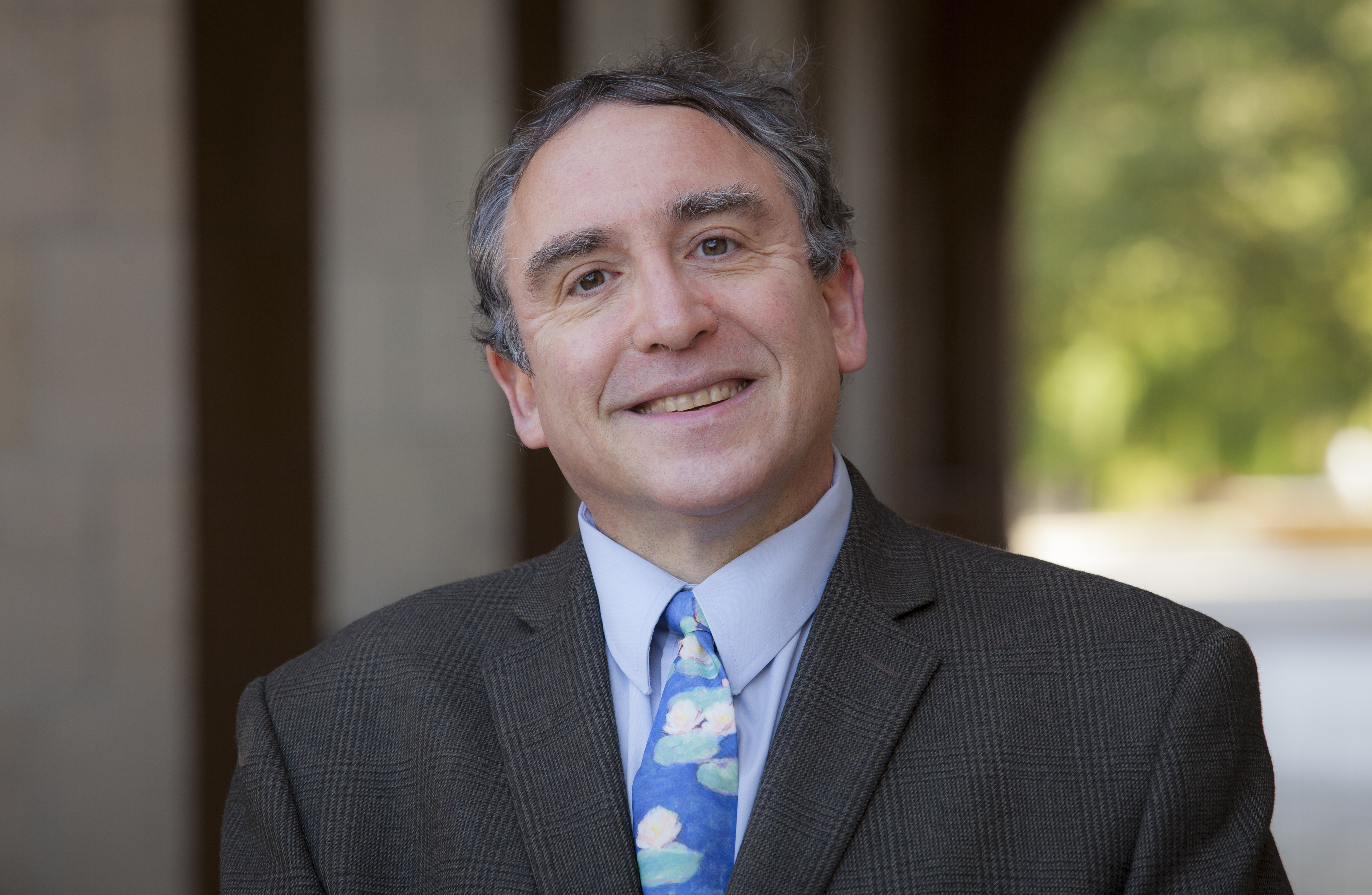 Thomas M. Storke Professor at Stanford University, with appointments in Communication, Computer Science, Education, Law, and Sociology, and TeachAIDS Co-Founder